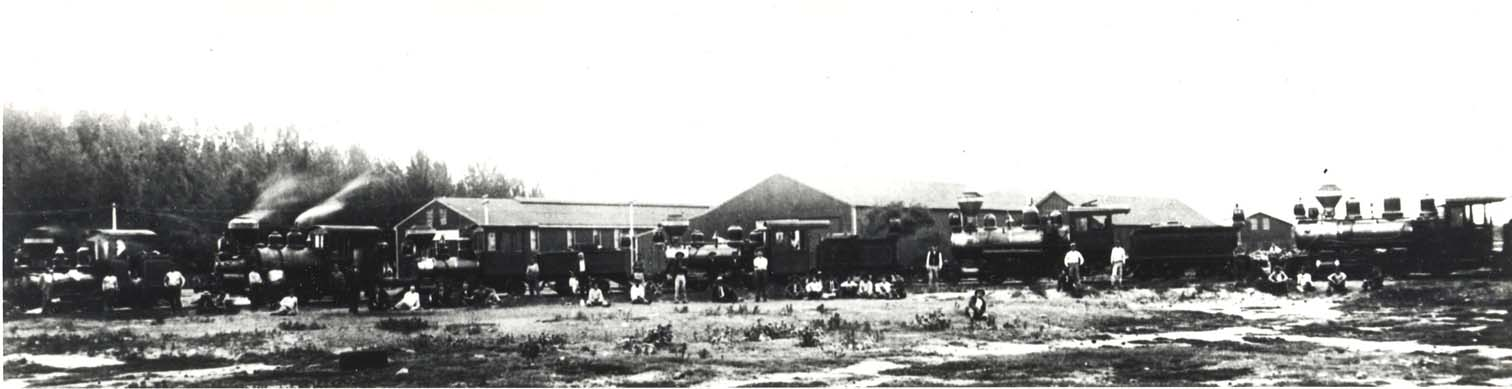 Kahului Railroad on Maui, Steam Locomotives, 1911